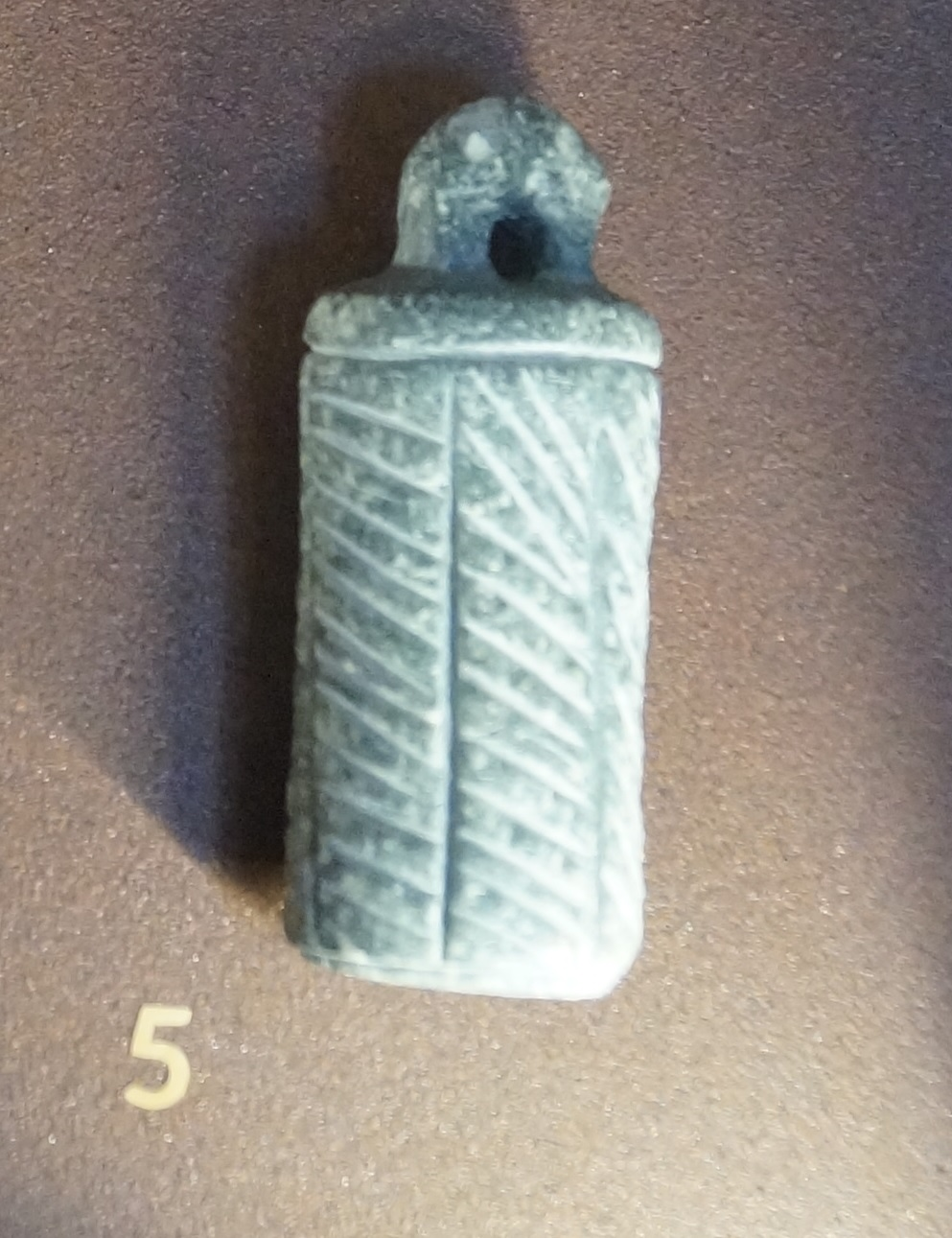 Archaeological Museum of Thebes: Cylindrical stone seal from Medeon in Boeotia. (middle helladic, 2000-1700 v. Chr.)